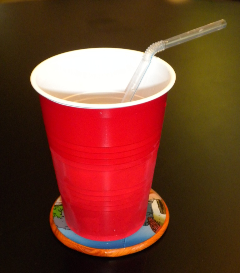 Red Plastic cup.